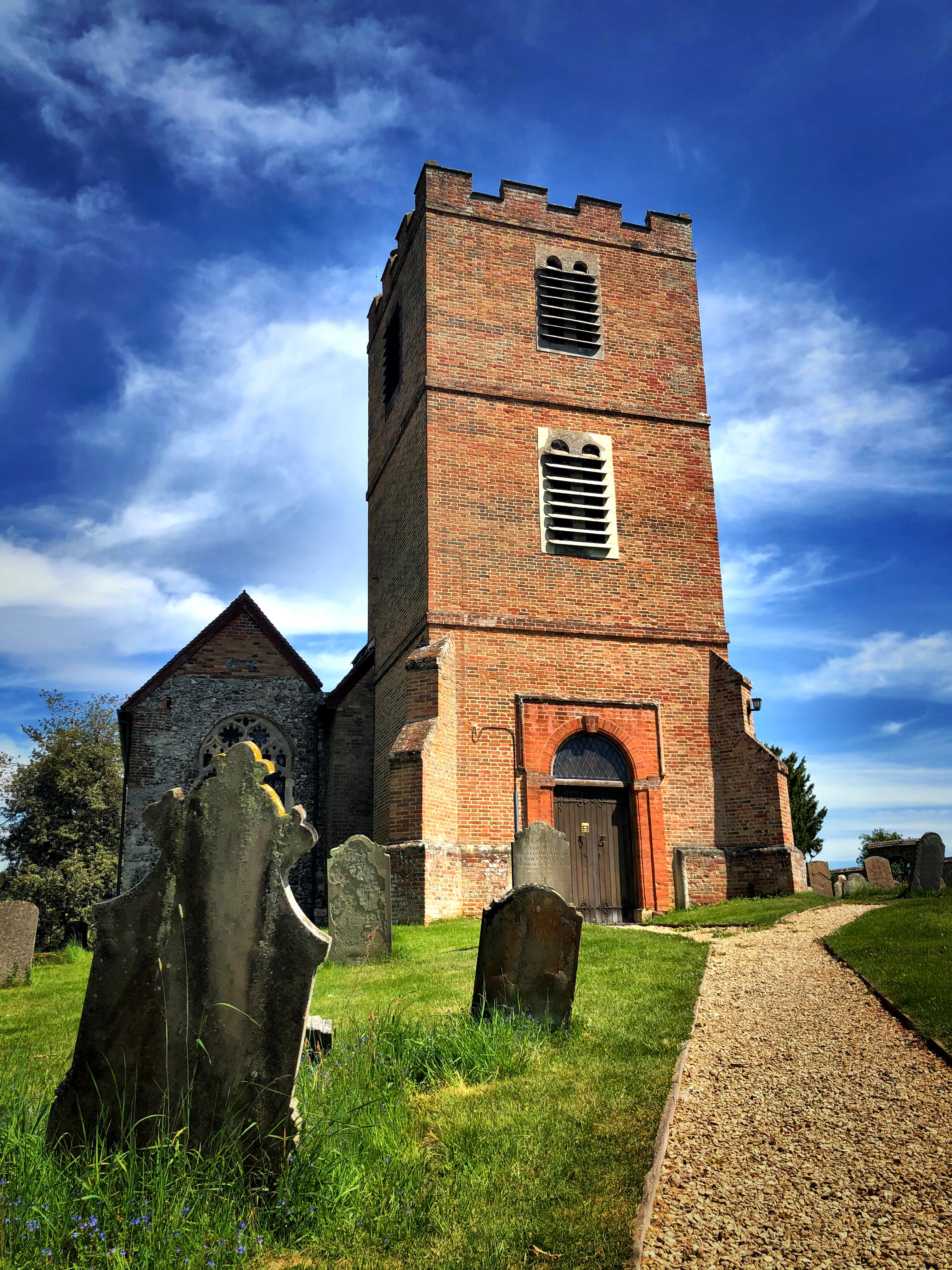 St. Mary's Church Hamstead Marshall